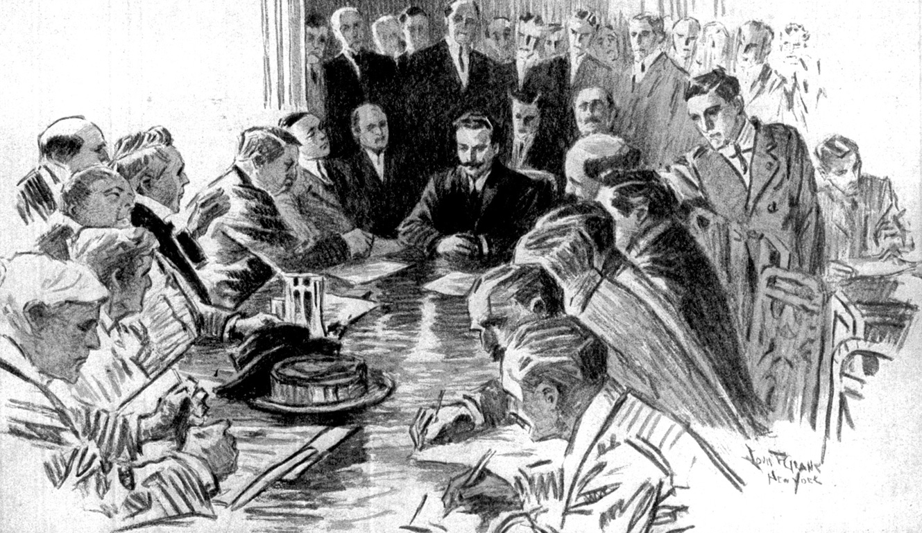 Sketch of J. Bruce Ismay giving evidence to the United States Senate inquiry into the sinking of the RMS Titanic sitting in the Waldorf Astoria, New York